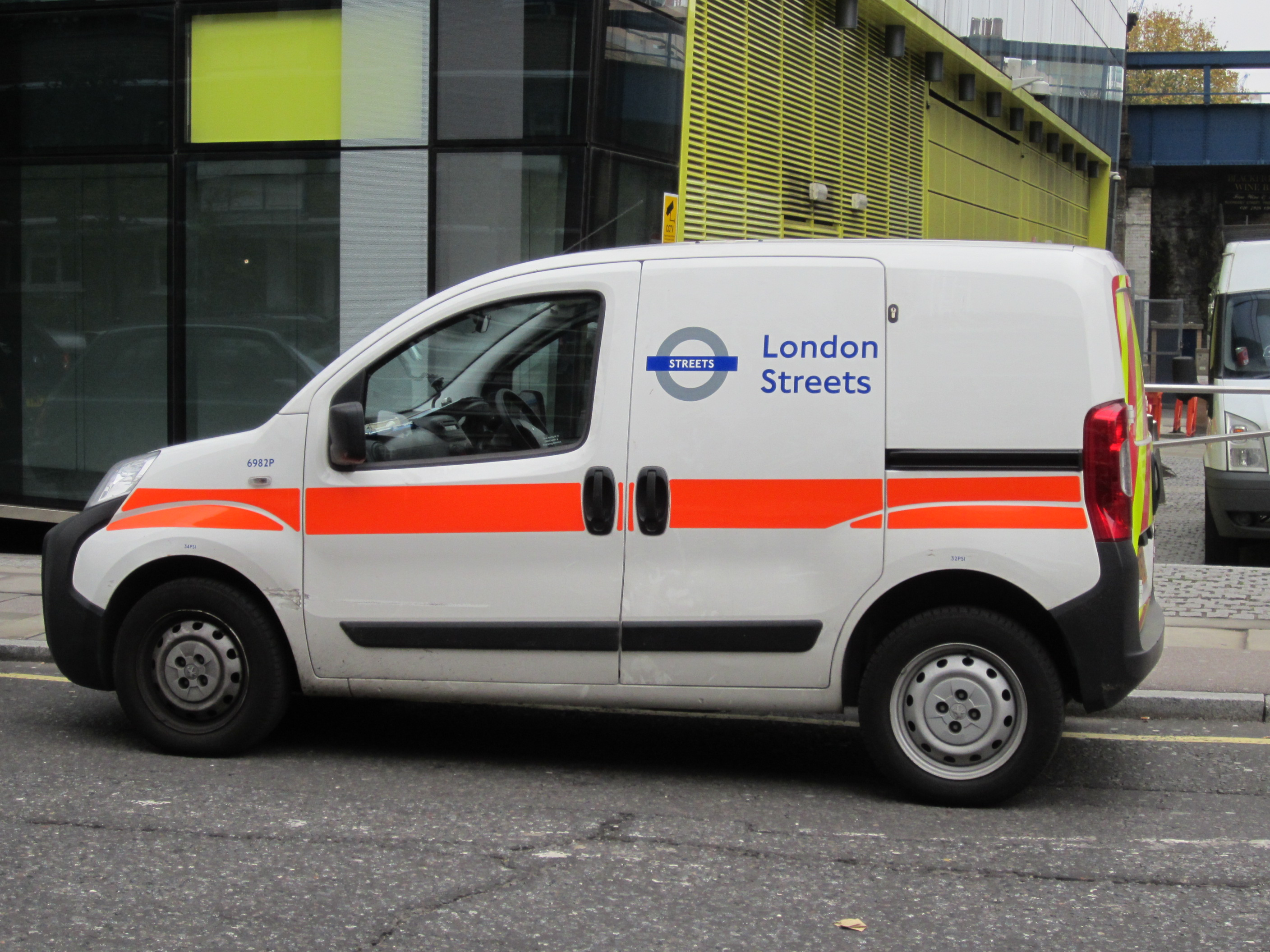 A van belonging to London Streets parked near Southwark Tube Station